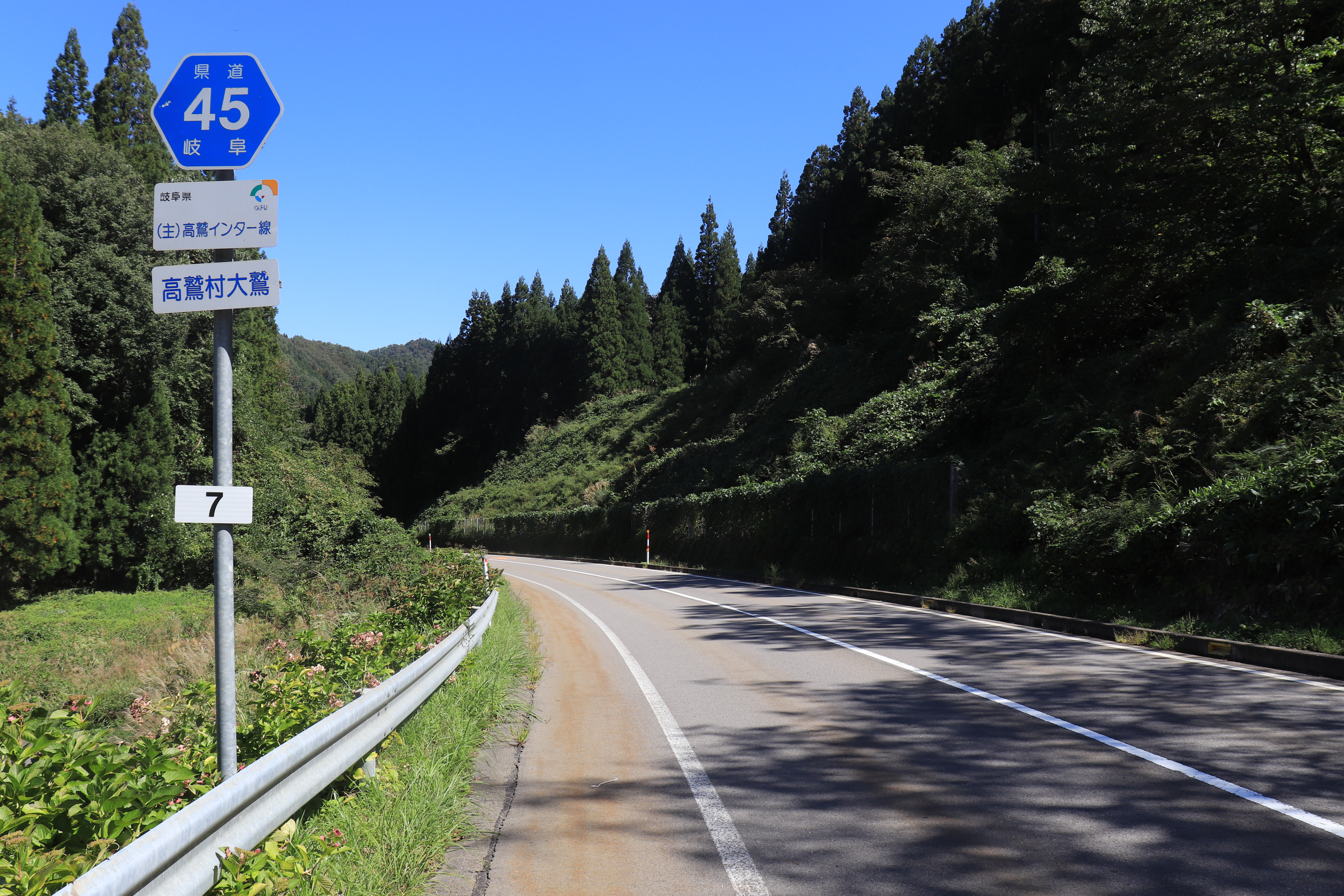 Gifu Prefectural Road Route 45 in Ōwashi, Takasuchō, Gujō, Gifu Pefecture, Japan.